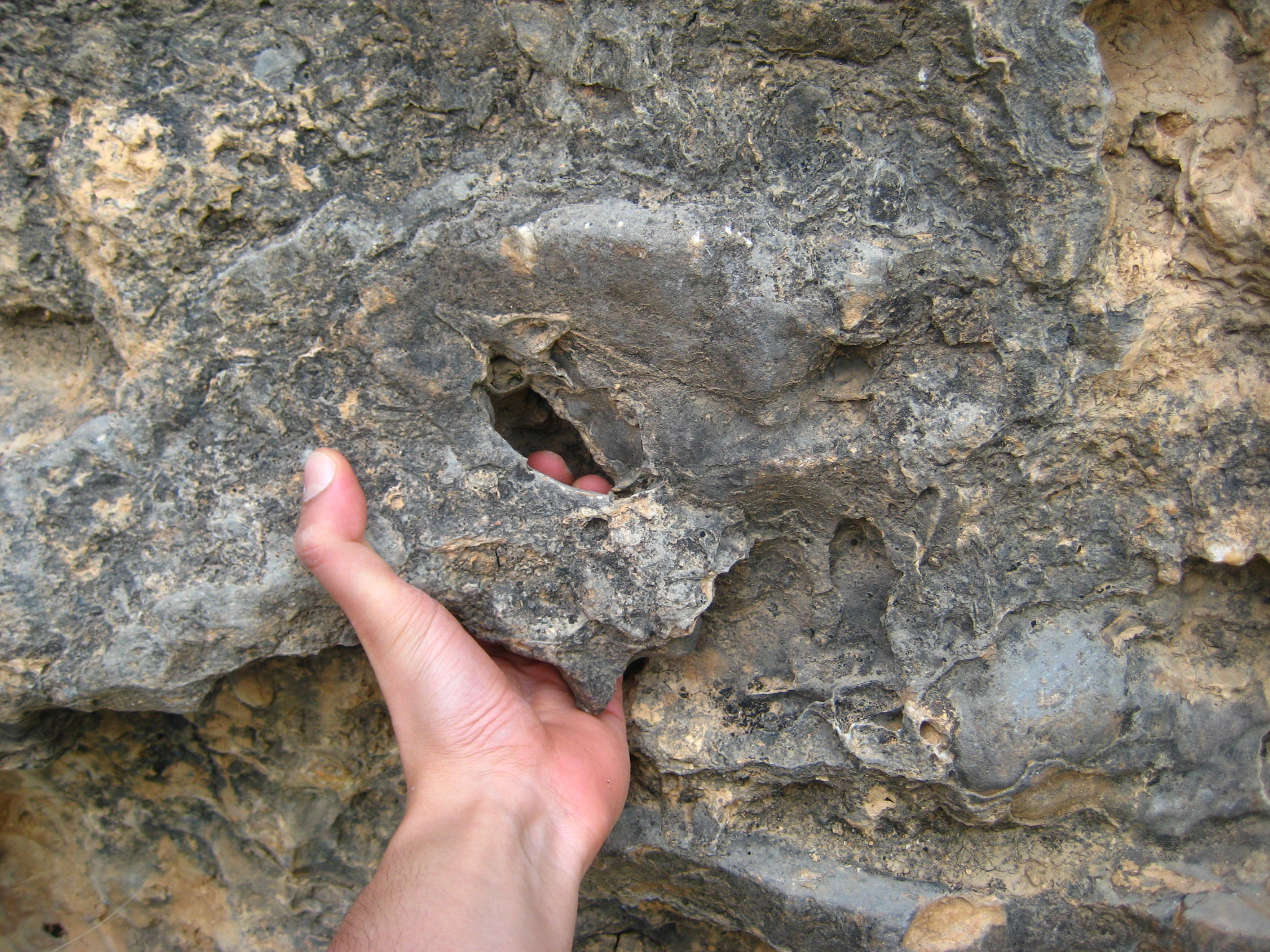 Conglomerate rock on a rock climbing route in Margalef, Catalunya, Spain.